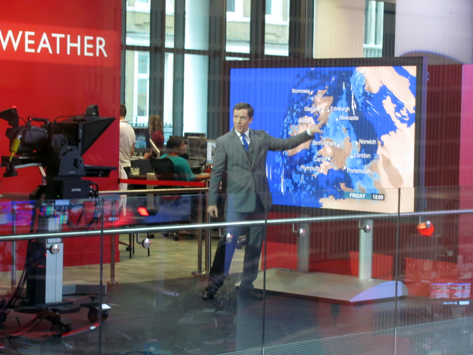 Alex Deakin does a live weather forecast from the upper floor of the newsroom in the BBC Broadcasting House, London.